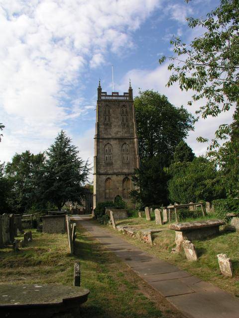 Berkeley Church. The detached bell-tower dates from 1753AD. The church is dedicated to St Mary the Virgin.